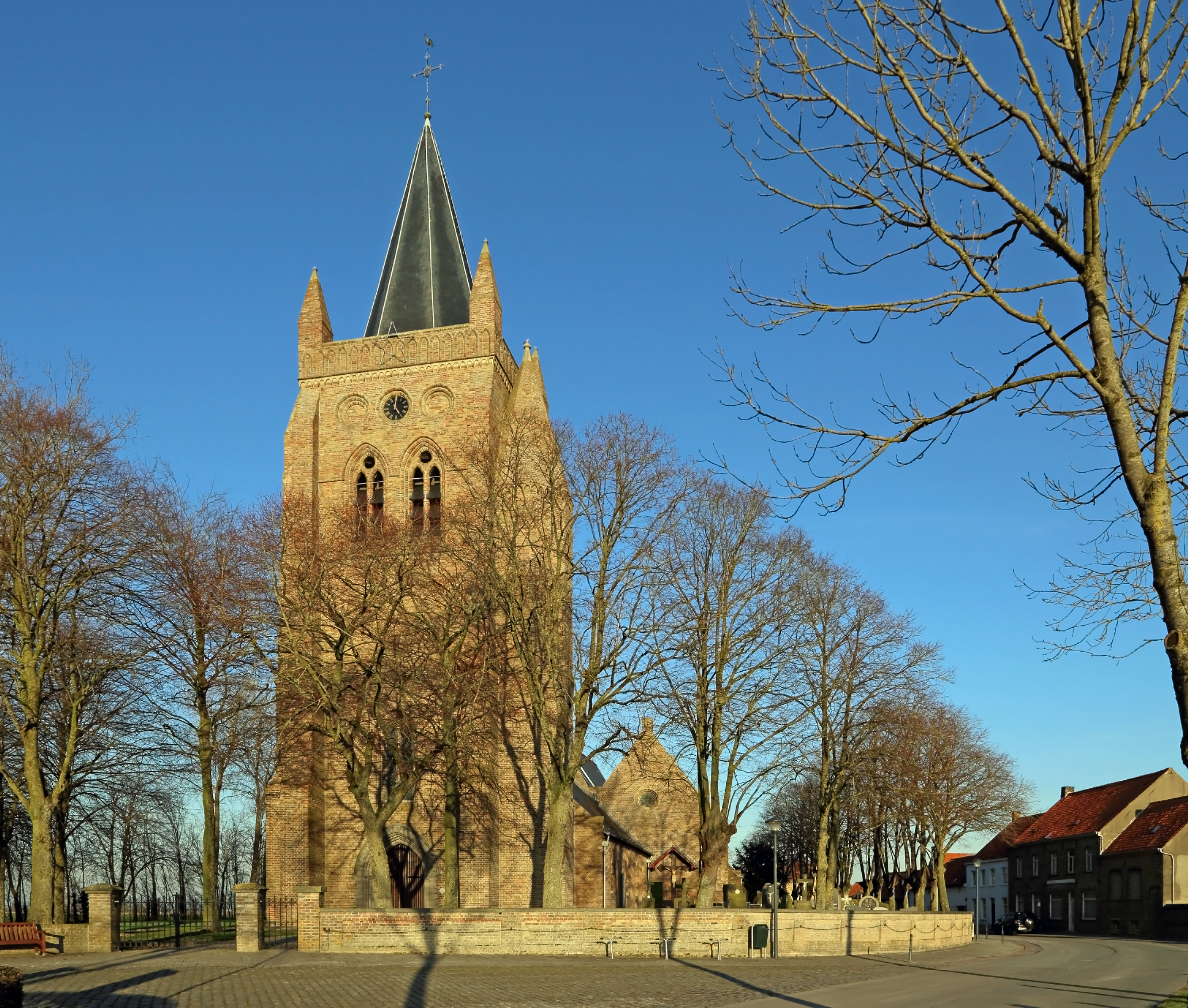 Lampernisse (municipality of Diksmuide, province of West Flanders, Belgium): Holy Cross church